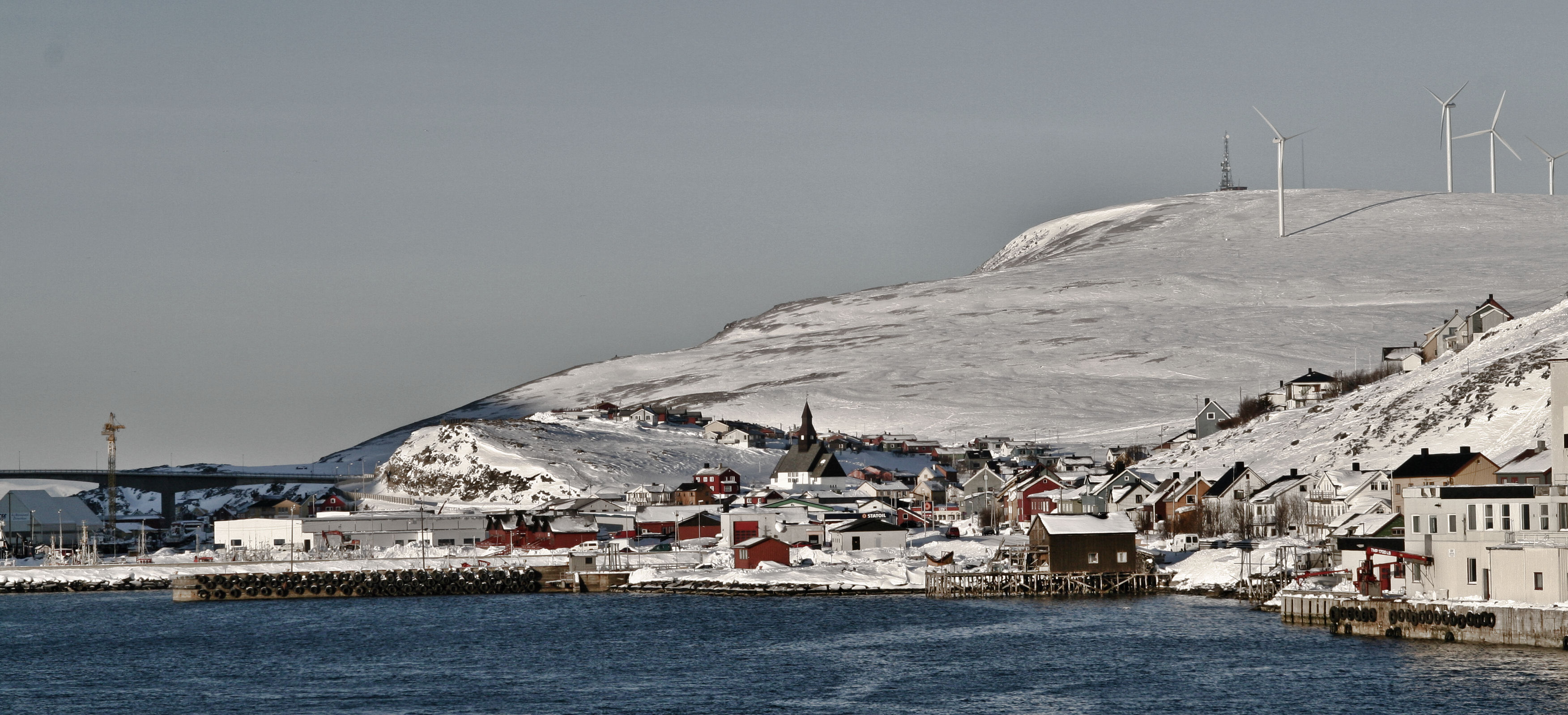 Havøysund harbour February 2006